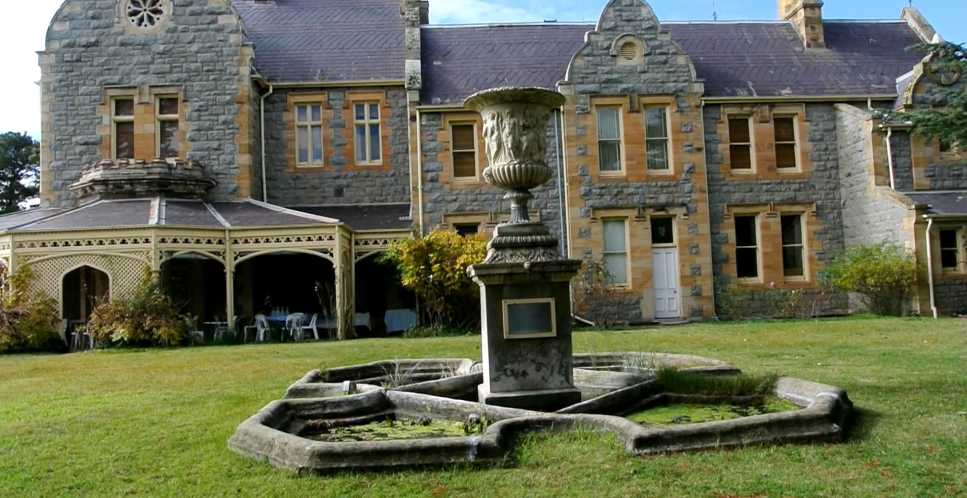 Abercrombie House, Bathurst, New South Wales